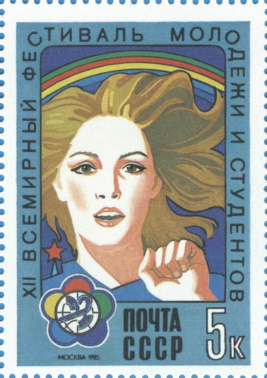 A USSR stamp, 12th World Youth and Students' Festival. Date of issue: 16th April 1985. Designer: M. Lukyanov. Michel catalogue number: 5499. 5 K. multicoloured. Girl and rainbow